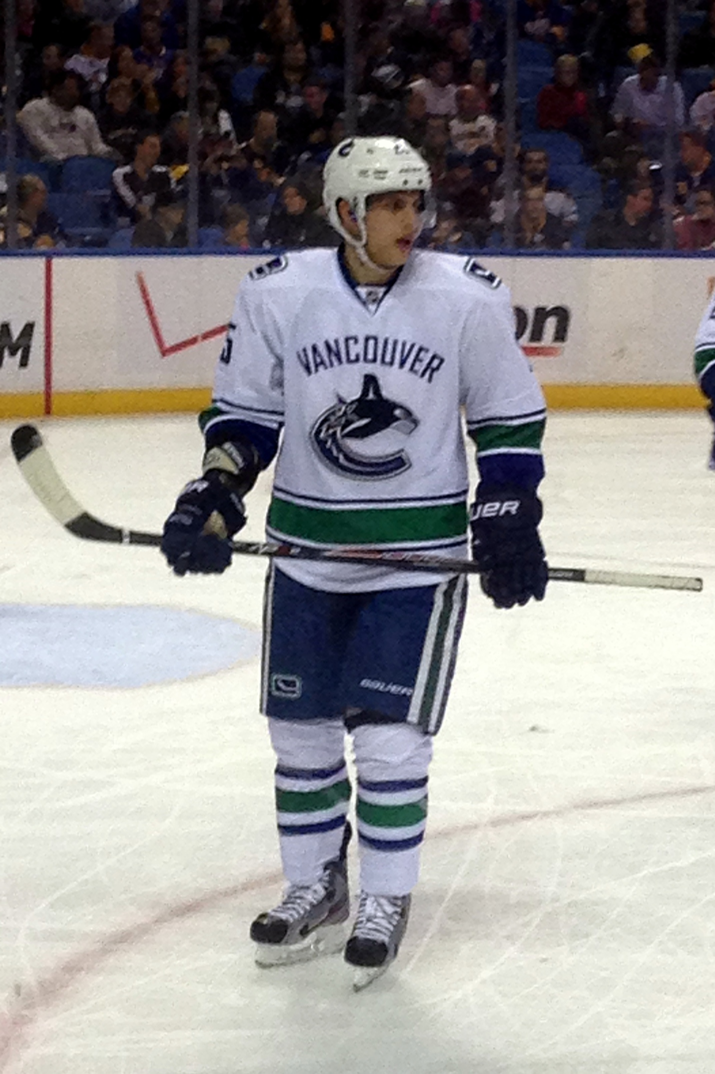 Mike Santorelli with the National Hockey League's Vancouver Canucks in 2013 during a game aginst the Buffalo Sabres